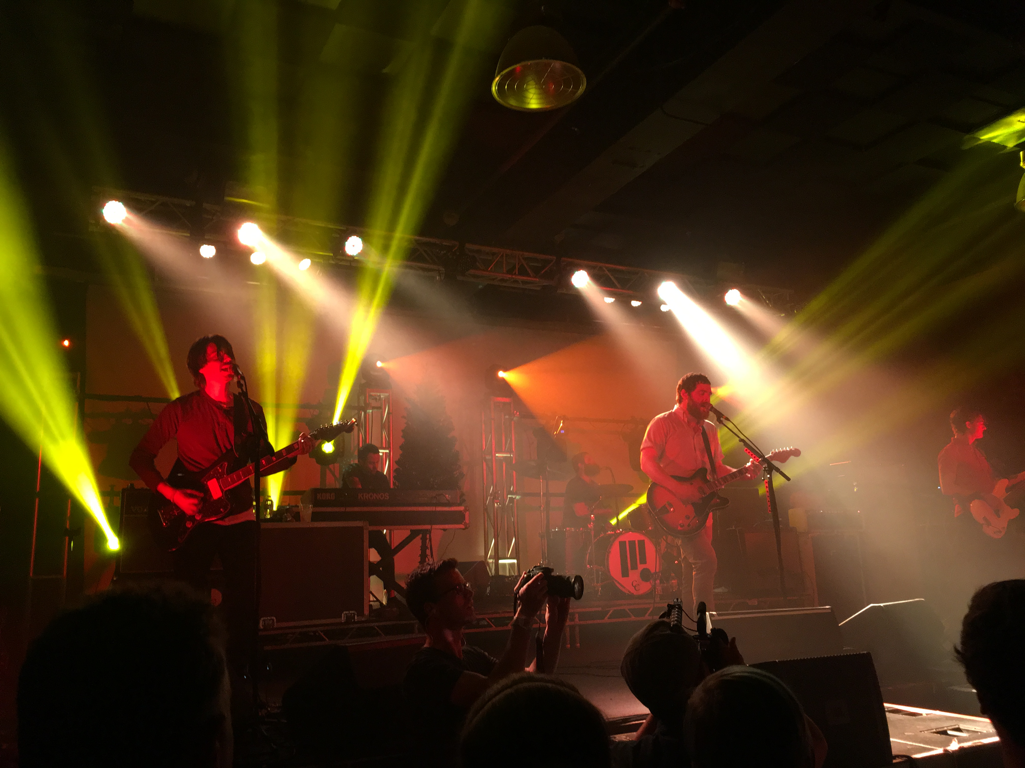 Manchester Orchestra headlining a tour with Foxing and Tigers Jaw opening. September 24th, 2017 at Concord Music Hall in Chicago, IL USA.